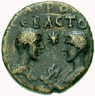 Brothers Commodus and Annius Verus facing in a bronze coin from Tharsos, Cilicia, 161-165. Greek legend CEBACTOC